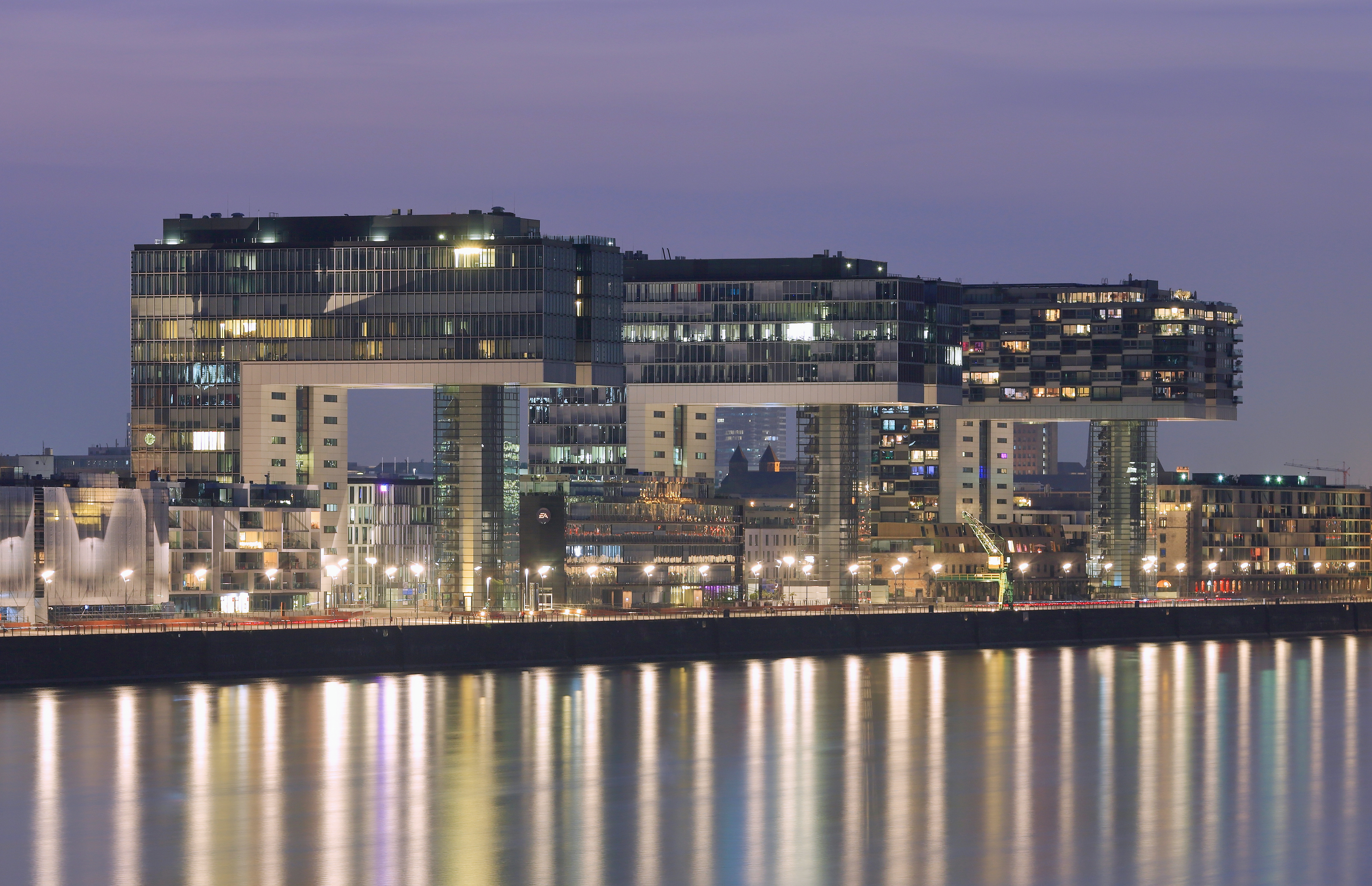 Panorama of the Kranhäuser, Cologne, as seen from the Rhine.